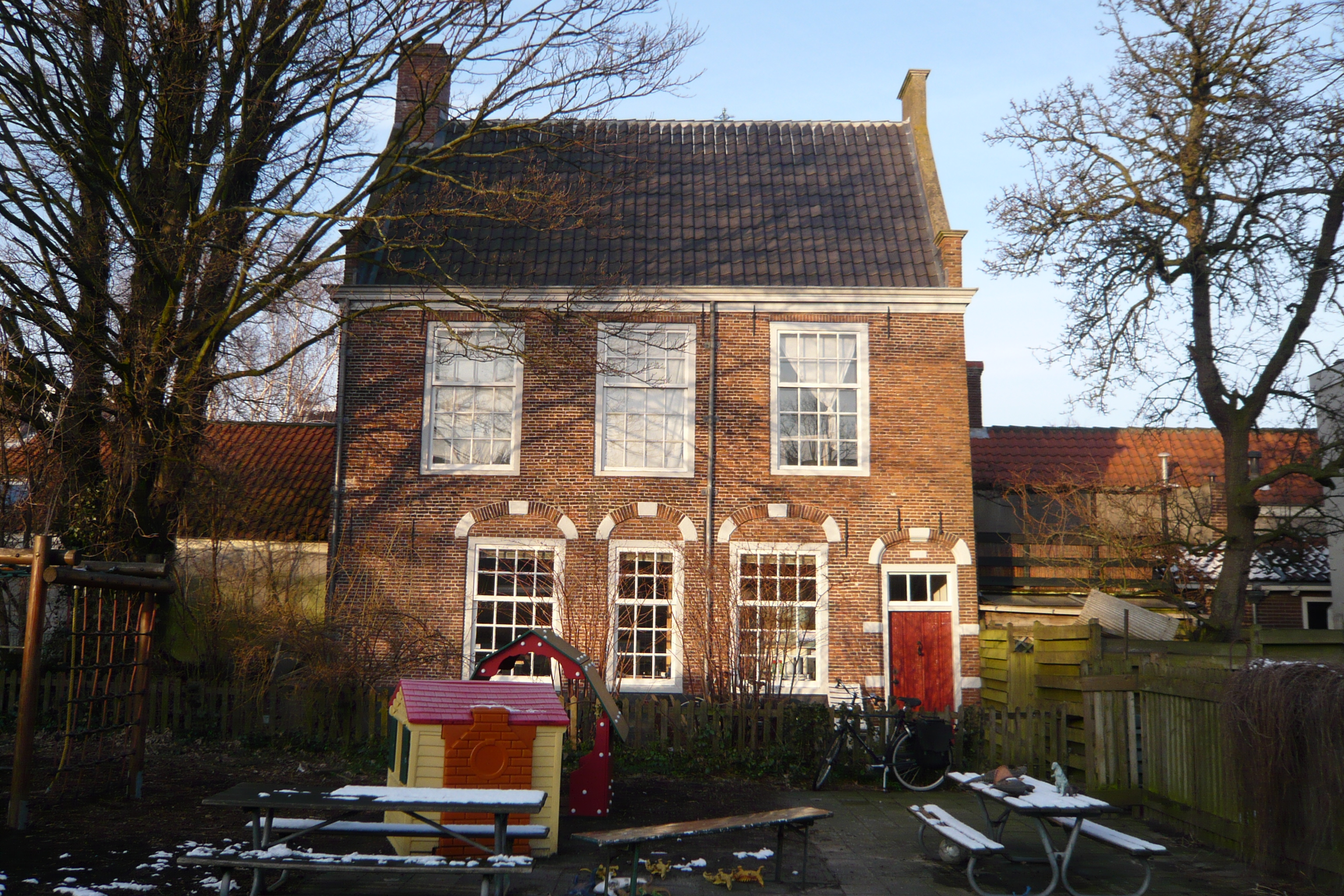 Former Coomans or "Merchant's" guild house, today an artist's workshop, with gable stone "1644", Witte Herenstraat 36, Haarlem. In the 1950s this house became known as "het Paradijsje" when it became the summer clubhouse of Teisterbant.